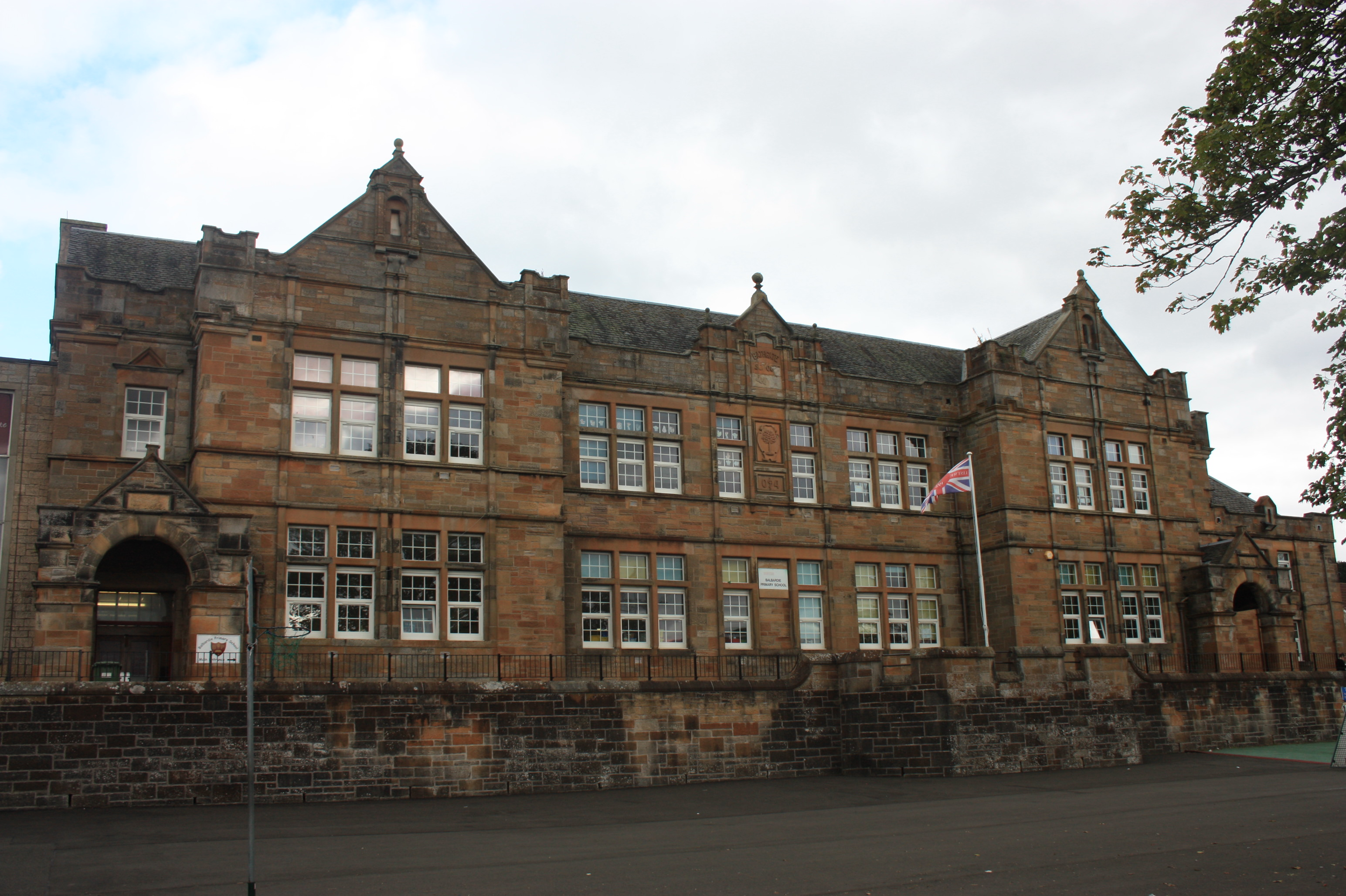 Torphichen Street School, Bathgate